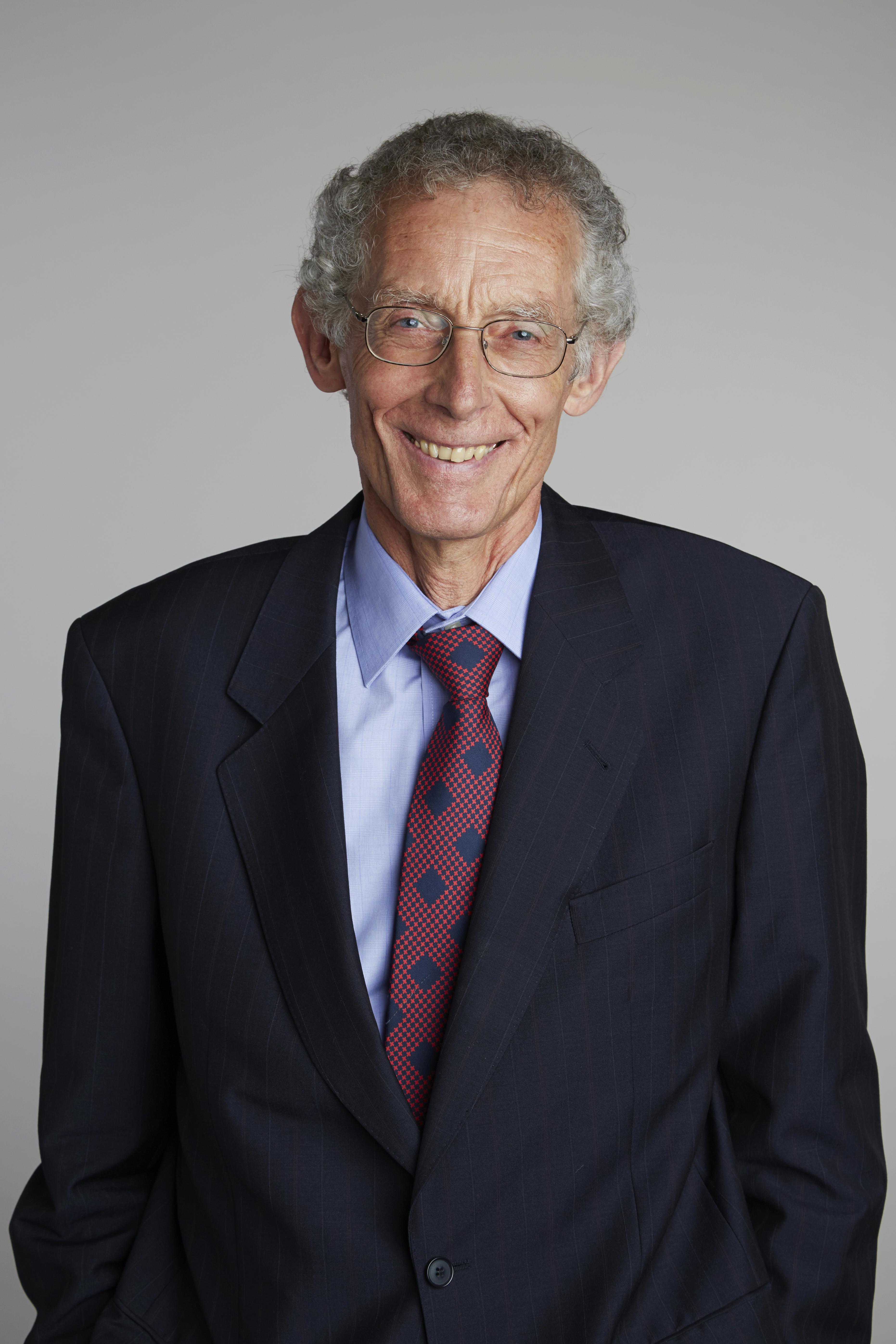 Bryan Turner’s research has changed perceptions of how the packaging of DNA in humans and other organisms regulates the way in which genes operate. He showed that the enzyme-catalyzed modification of specific amino acids along the major DNA-packaging proteins, the histones, is a key component of the molecular mechanisms by which genes are regulated. Through the preparation and experimental use of novel antibodies, he showed that individual modifications exert different functional effects. This led him to propose that combinations of histone modifications, recognized by modification-specific binding proteins, might act in concert with the genetic code, to regulate gene expression. In over 20 years of research, this proposition has been validated and extended by laboratories across the world. The new paradigm resulting from Bryan Turner’s ideas and experiments has stimulated ongoing research into how genes are influenced by environmental agents, including therapeutic drugs, dietary components and signals released by organisms themselves. The understanding it brings is central to the rapidly expanding field of epigenetics and its application to medicine, agriculture and biotechnology. Attribution: The Royal Society